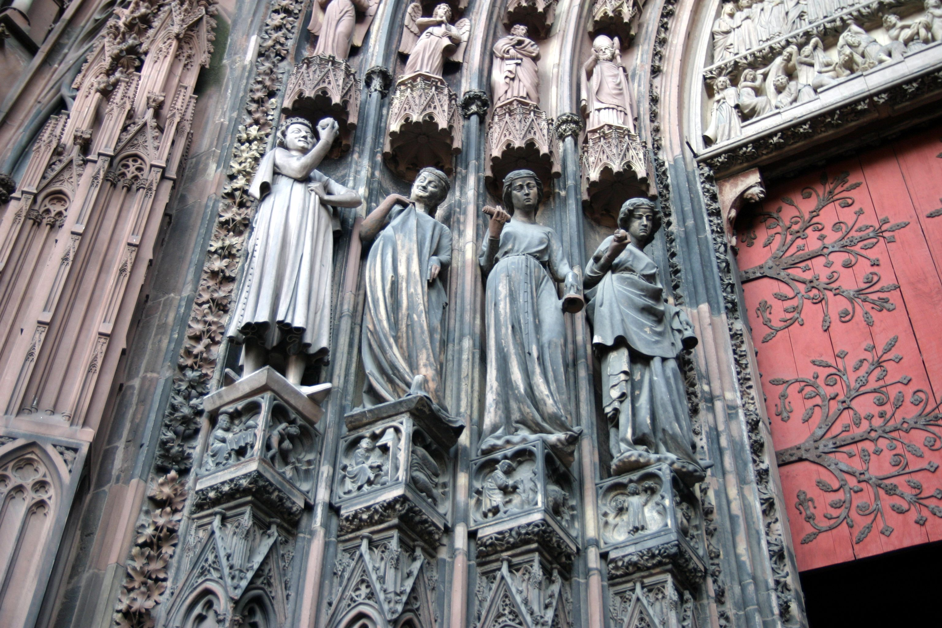 This image was taken at Strasbourg Cathedral, Strasbourg.